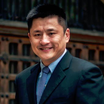 Wang Haibin 2019 Yale University, New Haven, Connecticut, USA